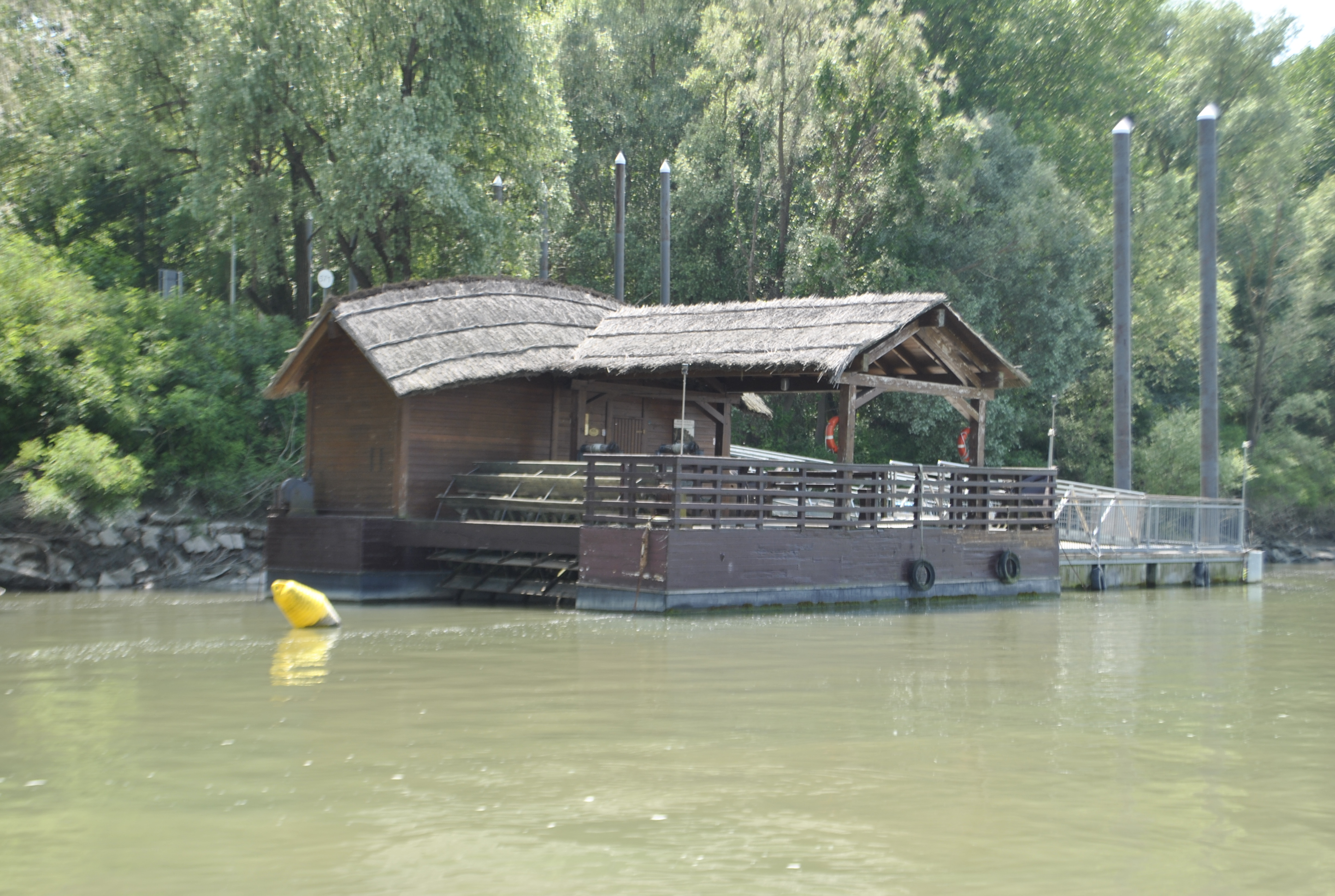 Floating mill on river Po, Ro Ferrarese, Italy